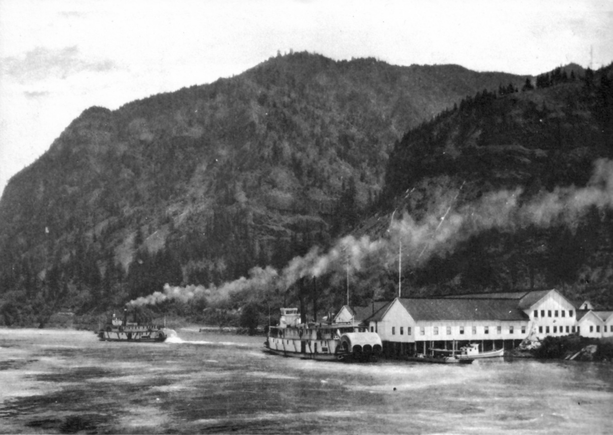 Sternwheelers Tahoma (moving upstream) and Dalles City (at dock), at the Warren salmon cannery, located just below the present location of the Bonneville Dam.